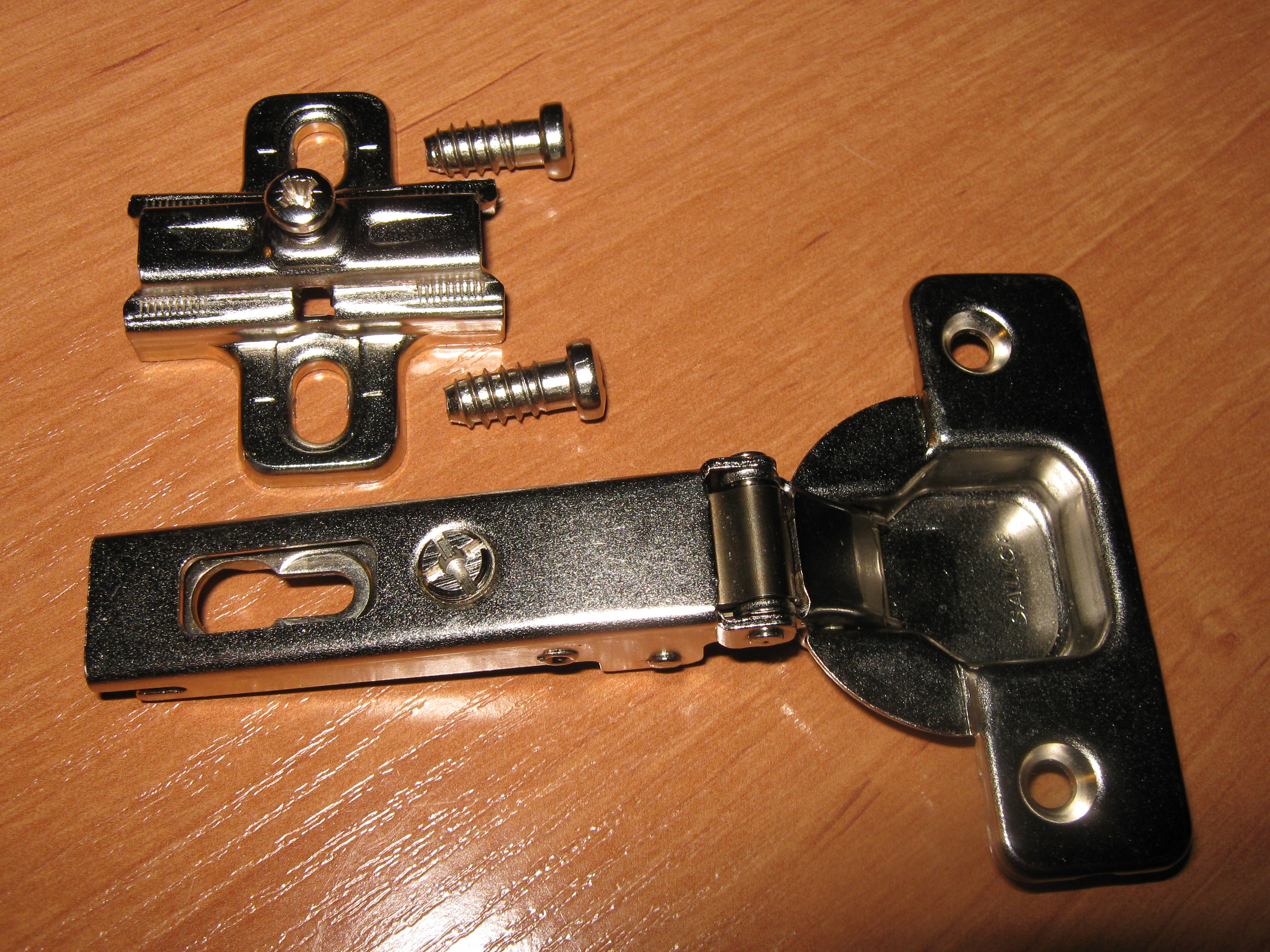 Furniture hinge full overlap Key-hole system.